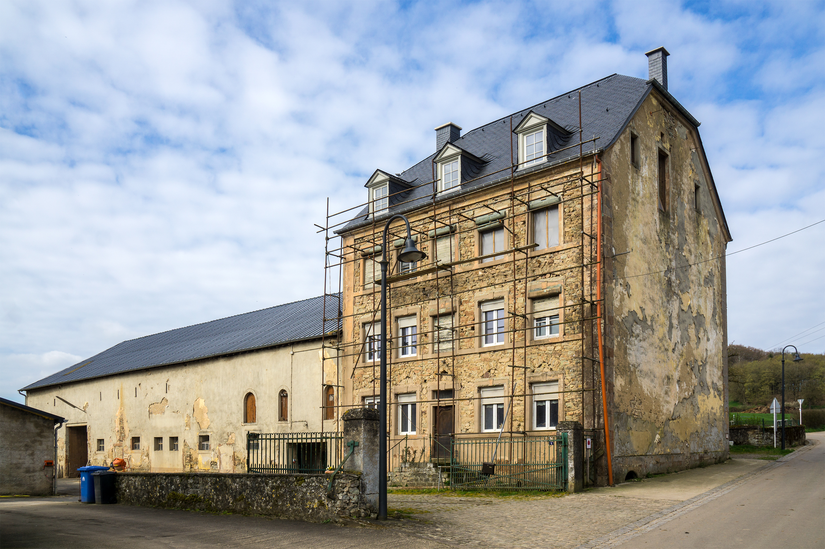 Building in Essingen (house Nr. 6)